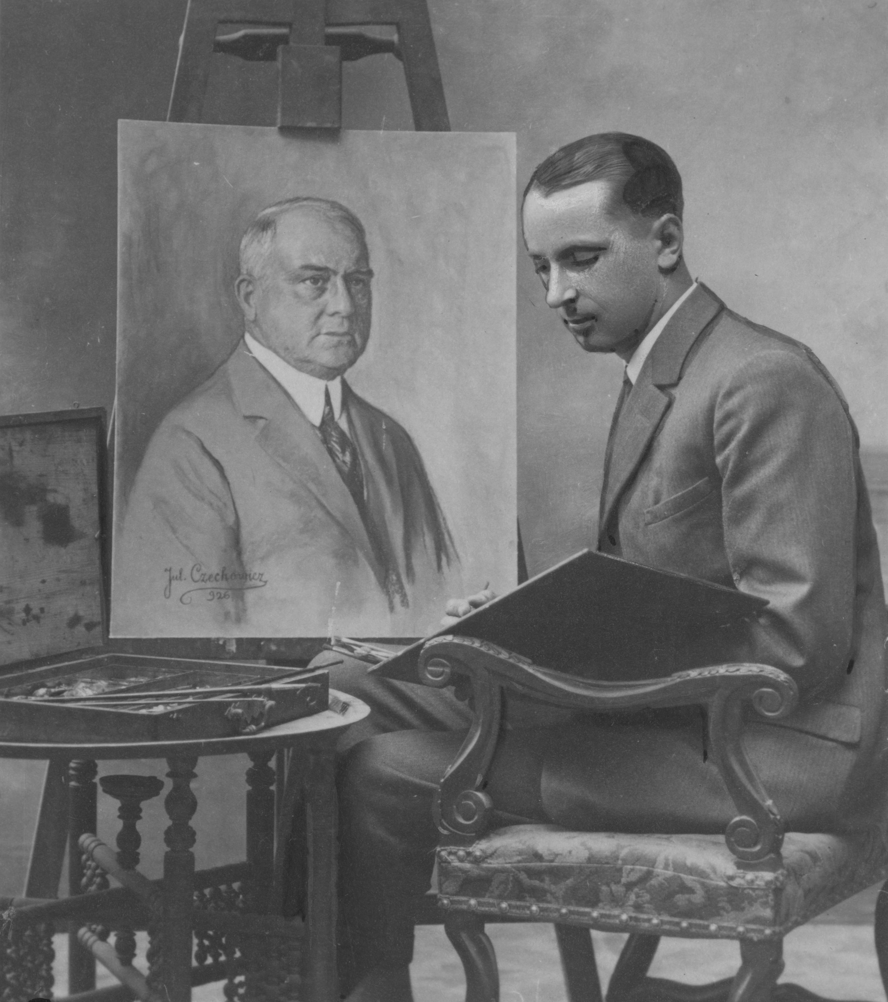 Artist painter Juliusz Czechowicz (1894-1974) while working in his studio in Rome.